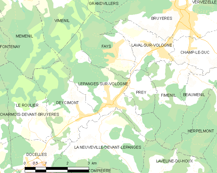 Map of French municipality Lépanges-sur-Vologne